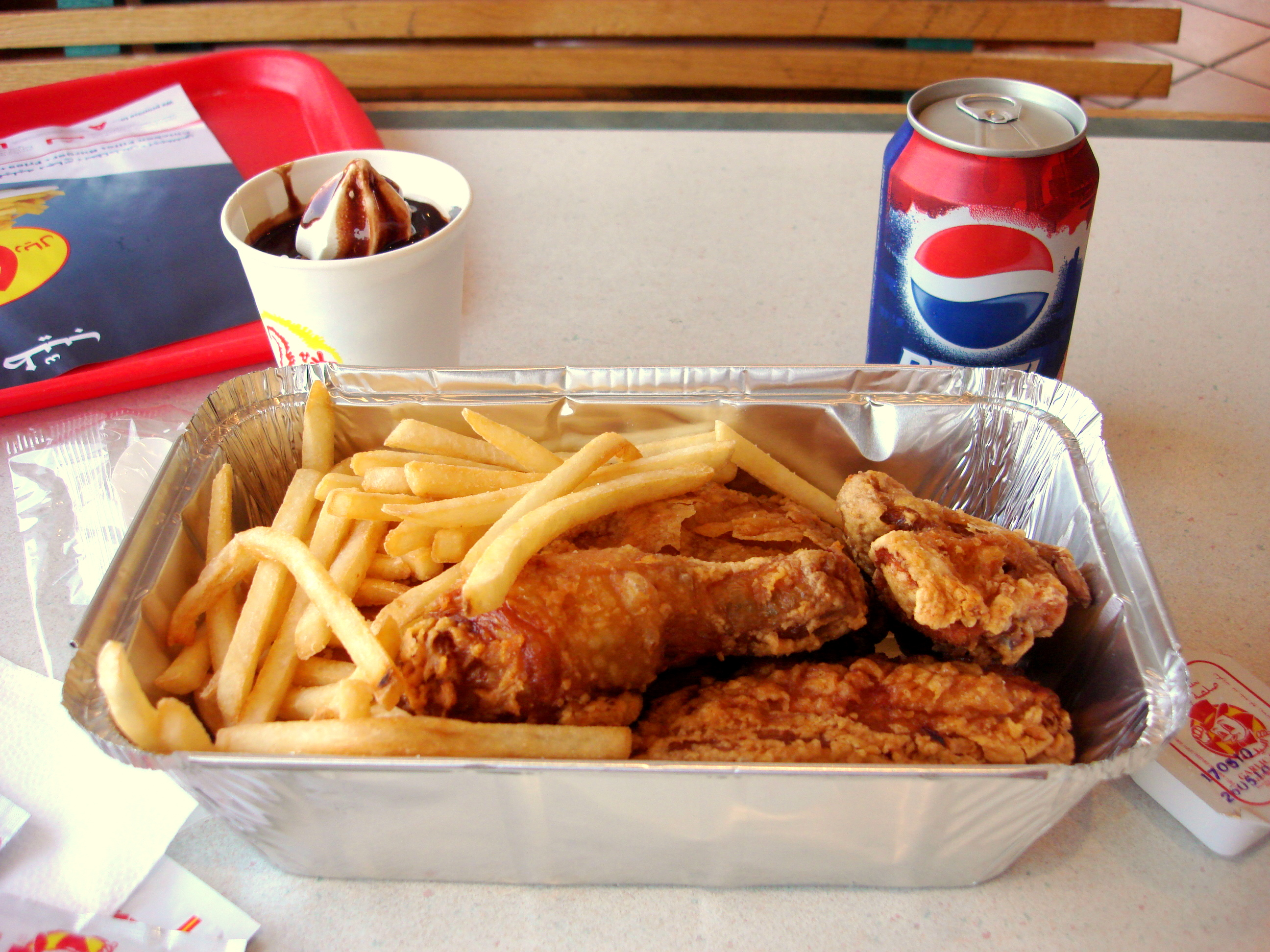 An Al Baik chicken meal with fries, soft drink and ice cream.